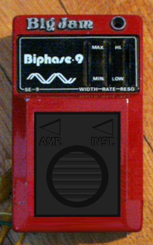 Multivox SE-9 BigJam BiPhase-9 manufactured by Nihon Hammond